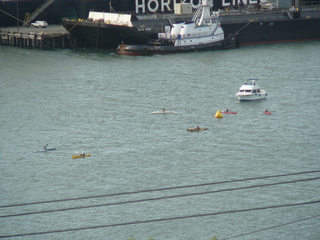 Ski to Sea, 2007 May 27th, Bellingham Bay near international pier: kayakers in final leg of race